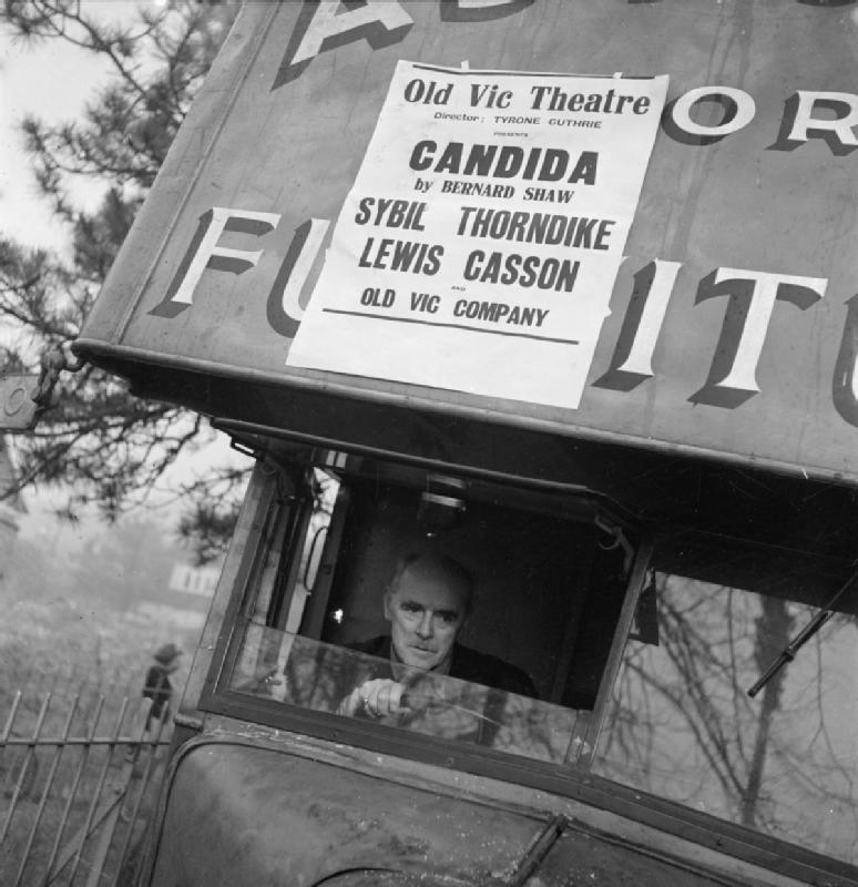 The work of the Council For the Encouragement of Music and the Arts- the Old Vic Travelling Theatre Company, Wales, 1941 Actor Lewis Casson drives the Old Vic Travelling Theatre Company scenery van during the Old Vic tour of South Wales. The van is an old furniture removal van. A poster above the windscreen advertises the play they will be performing as 'Candida' by George Bernard Shaw, starring Lewis Casson and Sybil Thorndike, and directed by Tyrone Guthrie.